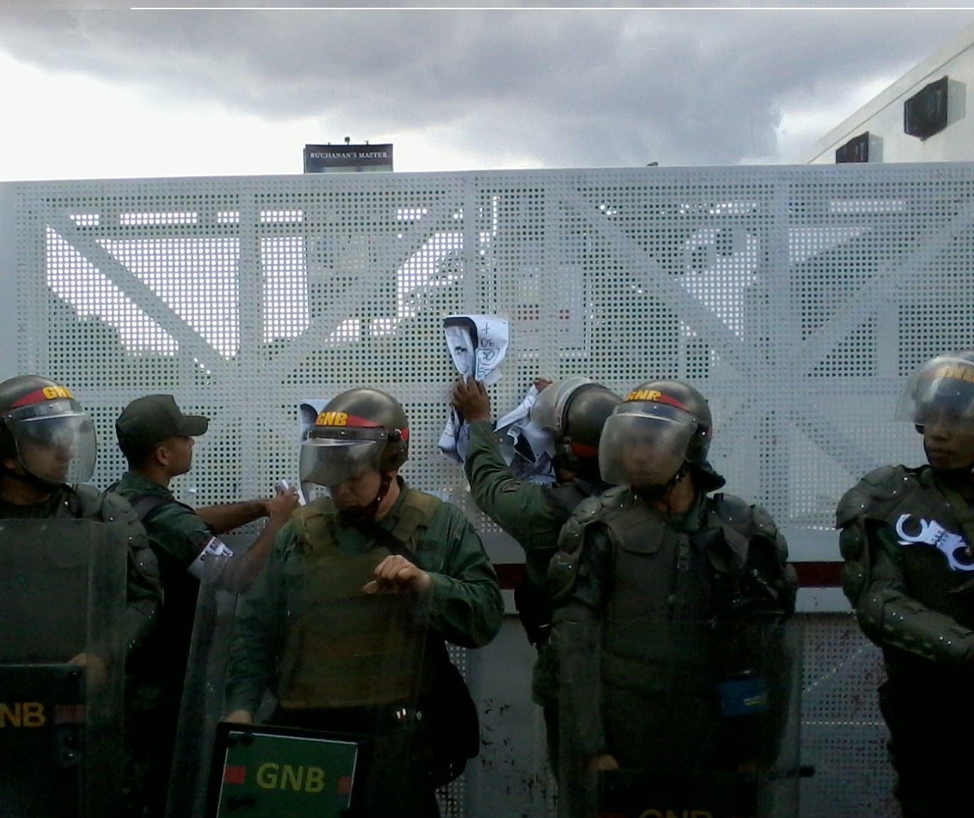 Venezuelan National Guardsmen taking positions.